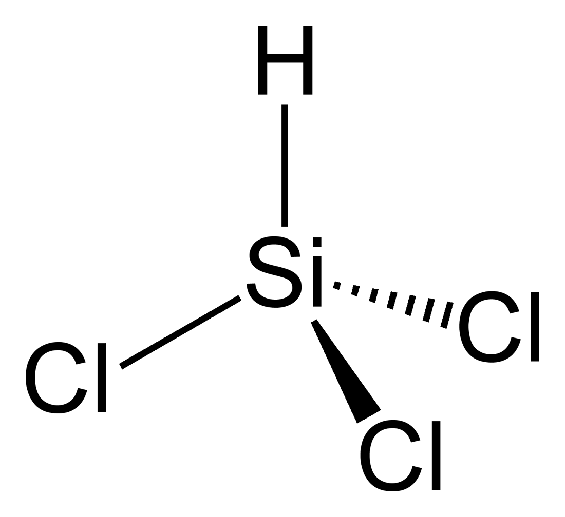 Two-dimensional stereochemical representation of the achiral trichlorosilane molecule, SiHCl3